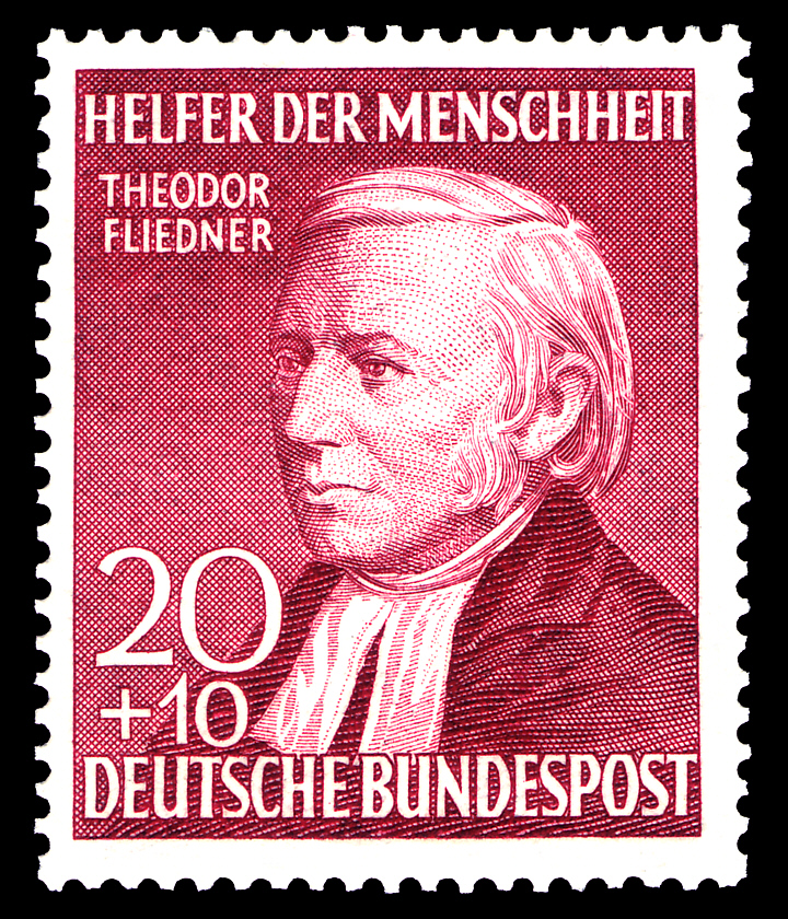 Social welfare stamp series 1952, Theodor Fliedner (1800-1864) Graphics by Piwczyk Ausgabepreis: 20+10 Pfennig First Day of Issue / Erstausgabetag: 1. Oktober 1952 Michel-Katalog-Nr: 158